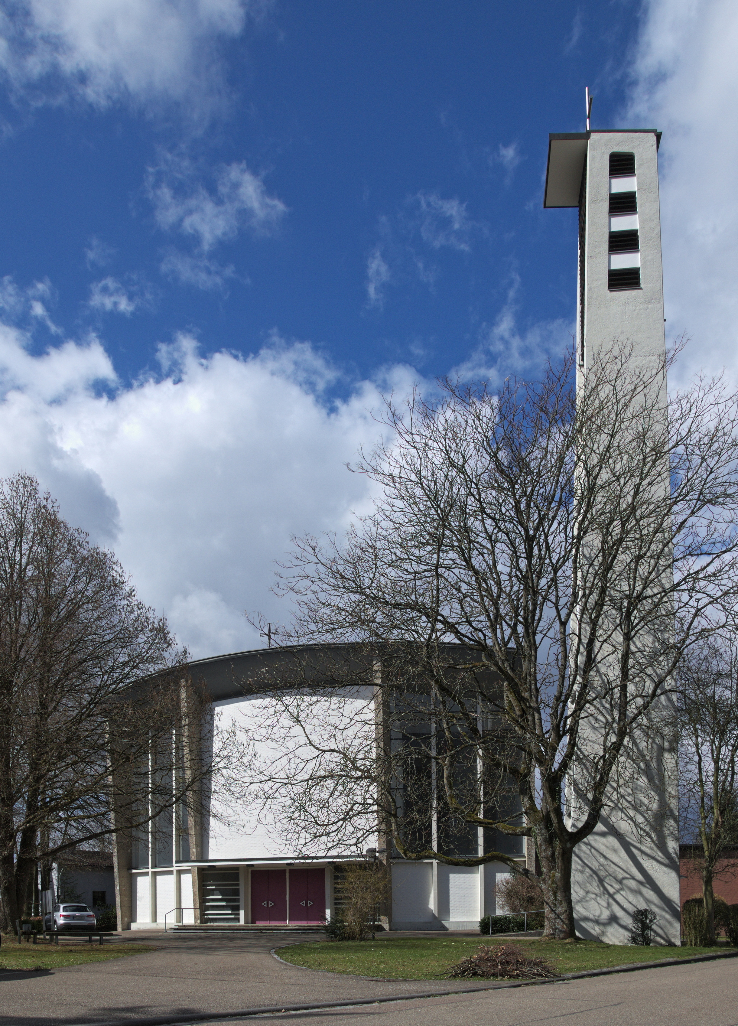 Catholic church St Peter and Paul, Schwäbisch Gmünd, Germany